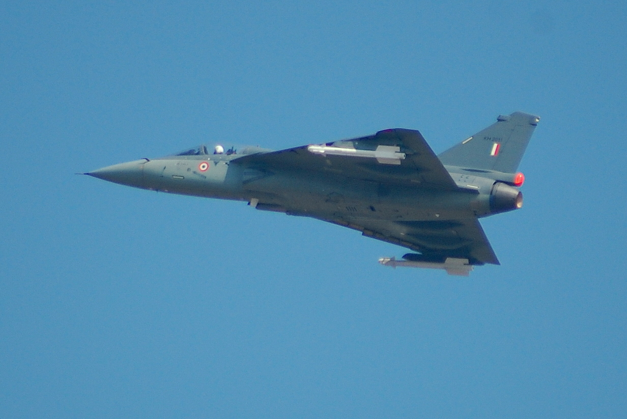 HAL Tejas at Aero India 2009.